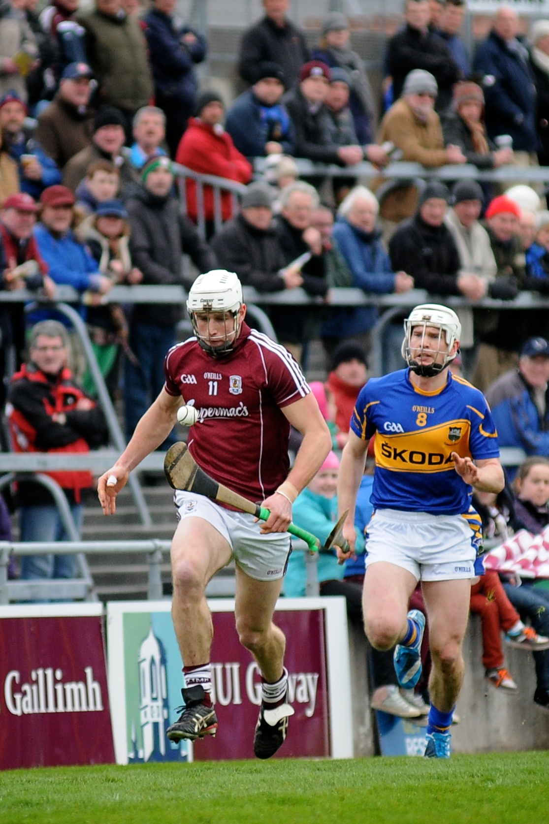 Gearóid McInerney (Galway), Brendan Maher (Tipp)